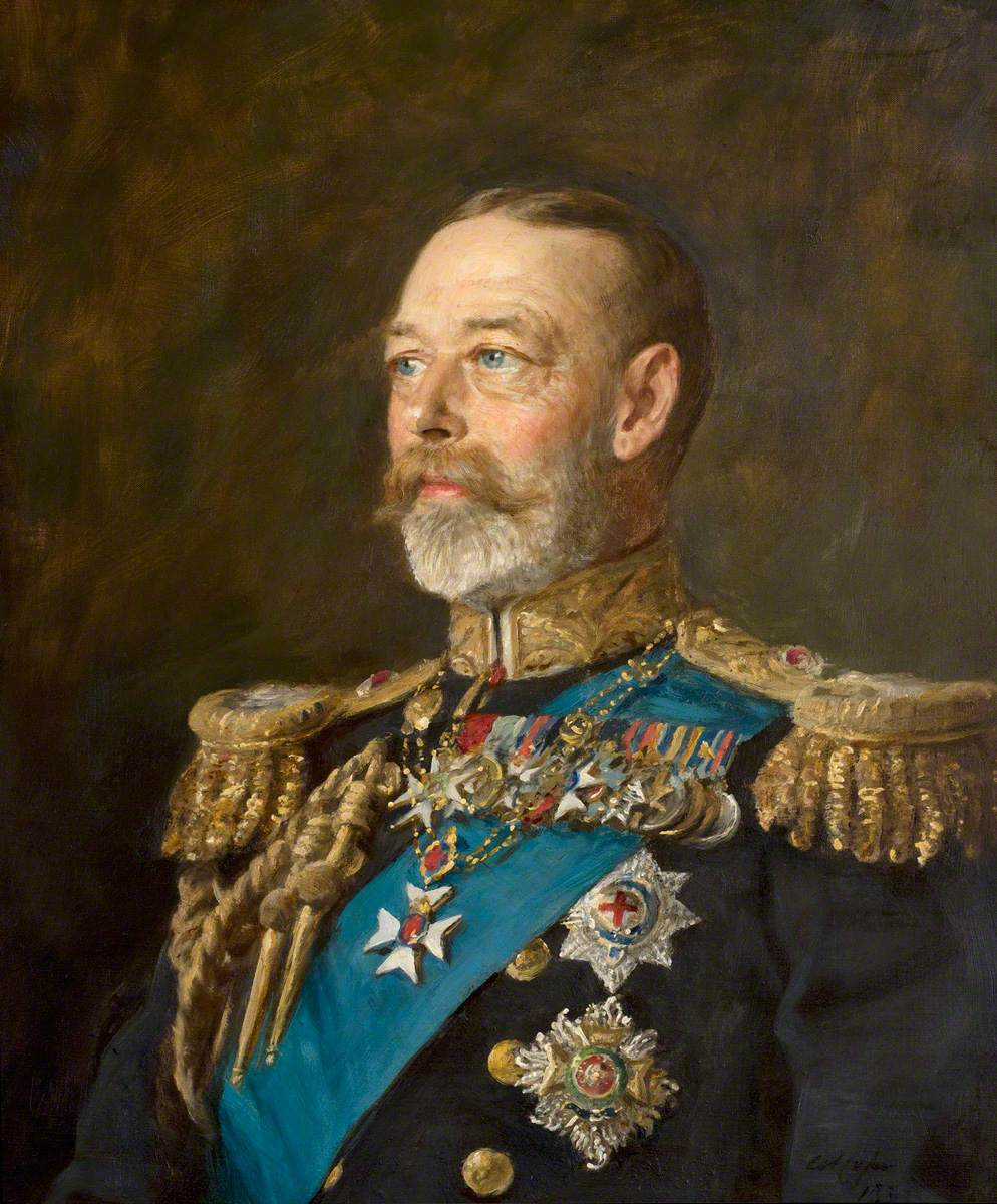 George V